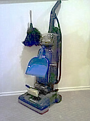 Feather duster, dustpan and broom, and upright vacuum cleaner in one picture.